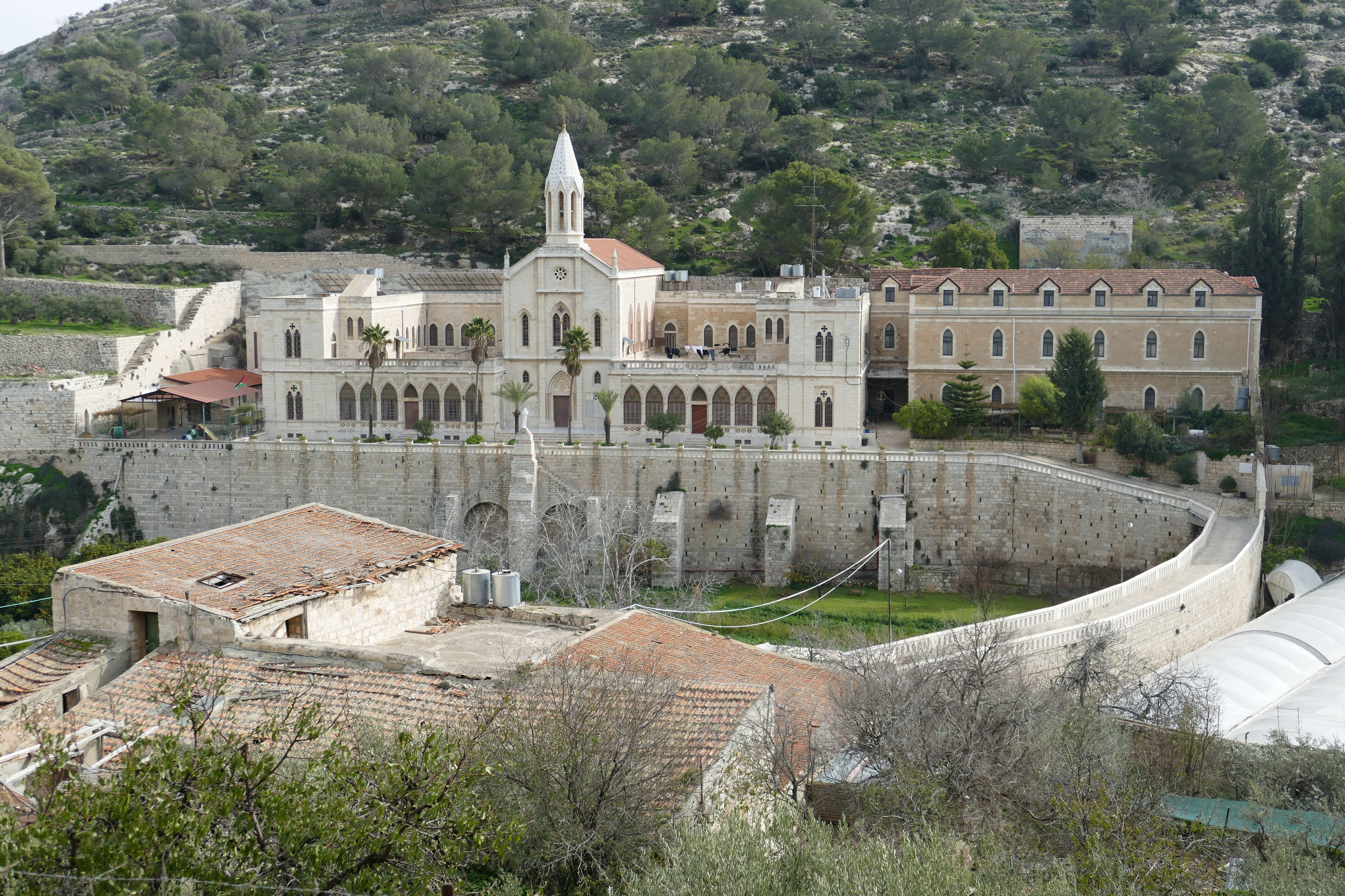 Convent of Hortus Conclusus, Artas, West Bank.